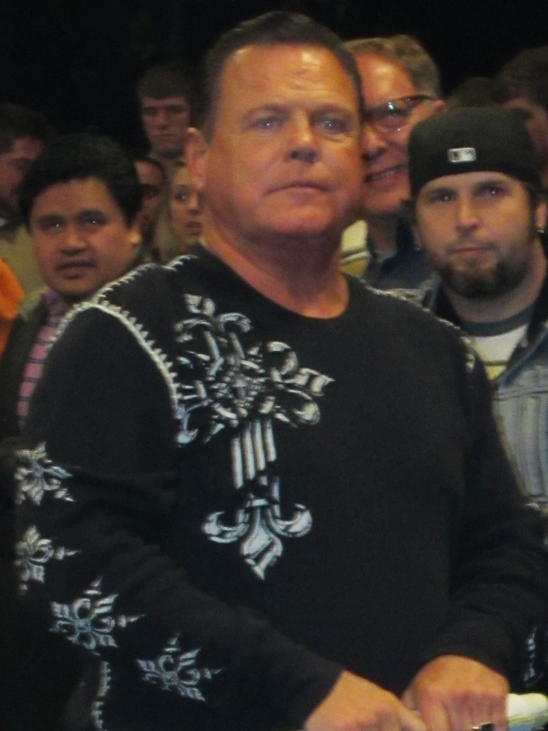 Jerry Lawler